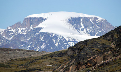 Midnight Sun Peak located to the north of Mount Odin